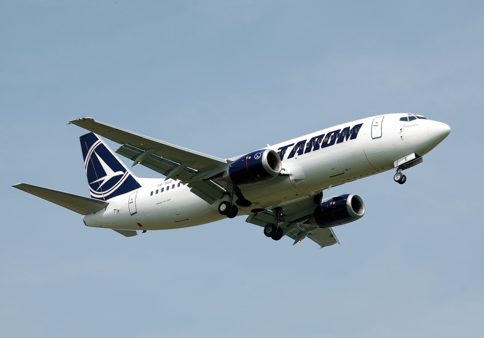 TAROM Boeing 737-300 (YR-BGE) lands at London Heathrow Airport, England.